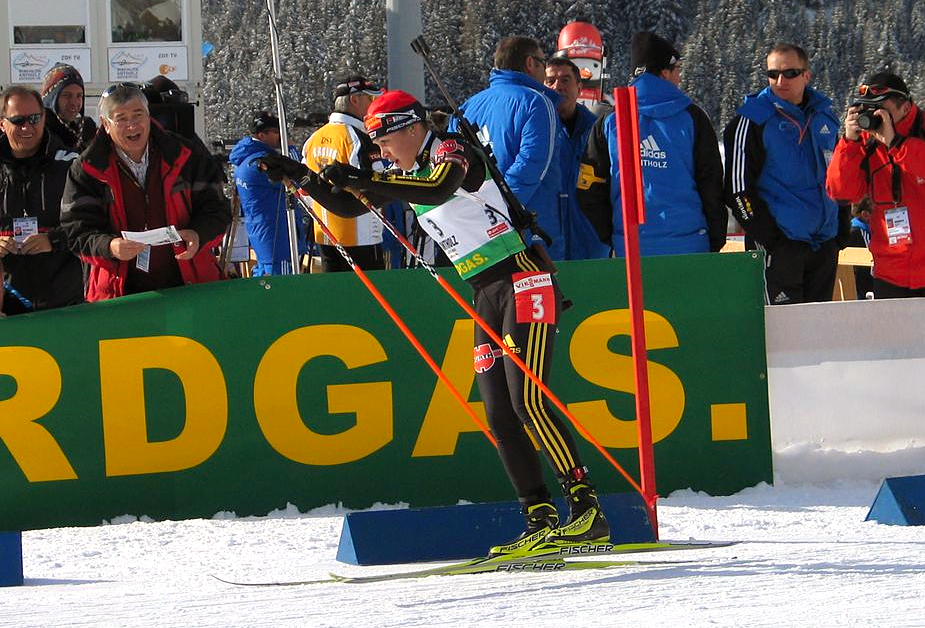 German biathlete Magdalena Neuner at the World Cup in Razen-Antholz, Italy, January 2009 Cropped from File:Neuner-Antholz09-2.jpg